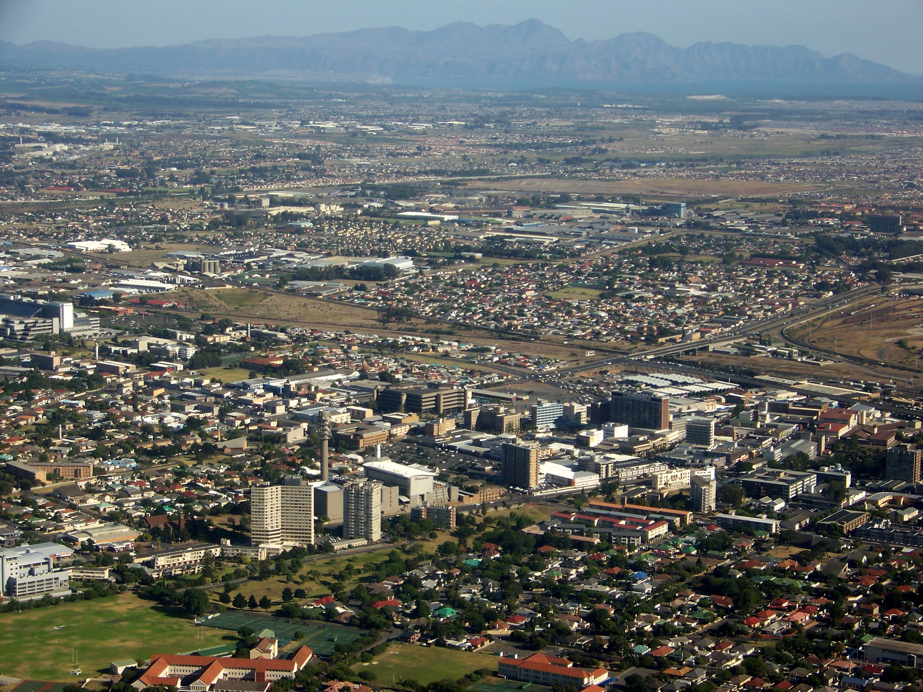 Bellville CBD aerial, with Kogelberg Mountains and False Bay in the background